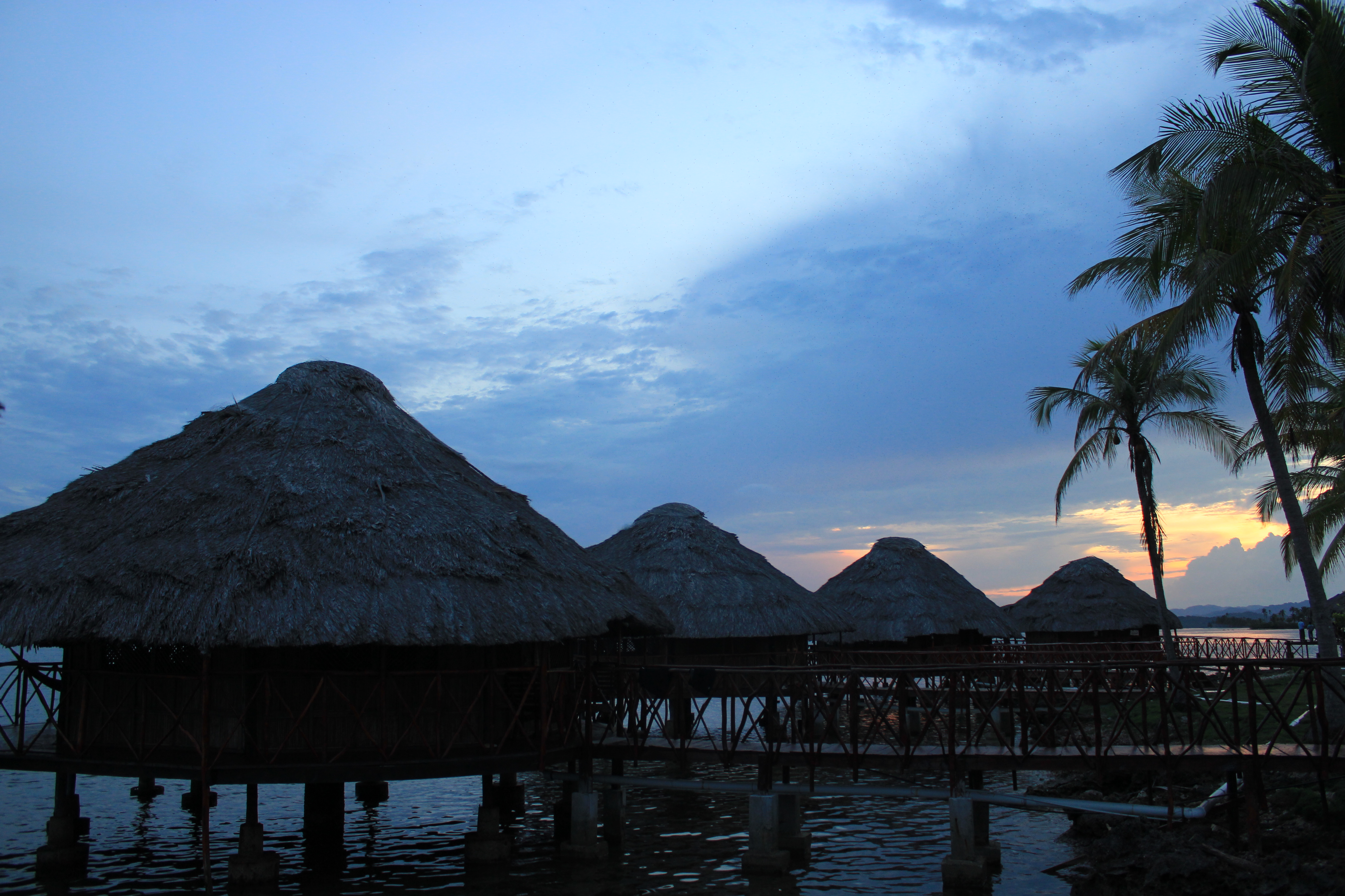 Cabins on Yandup Island, Guna Yala Panama.